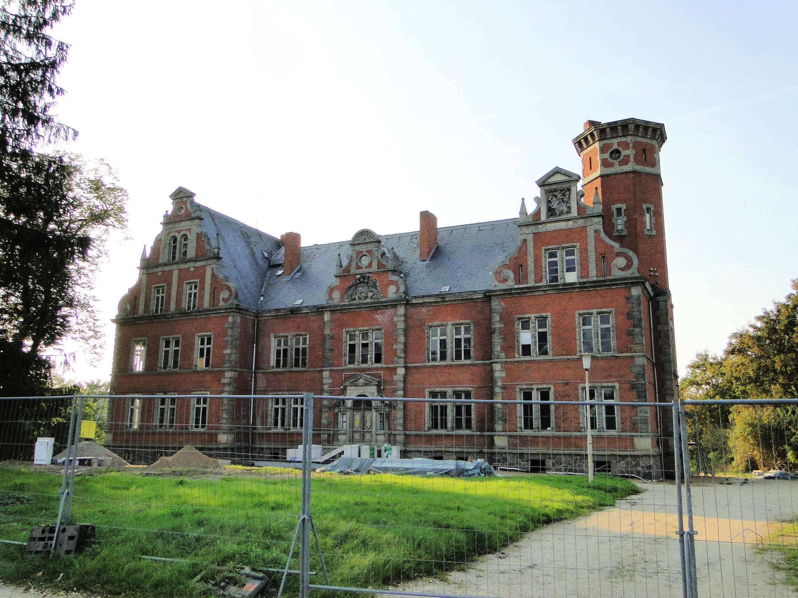 Manor house in Bernstorf, district Nordwestmecklenburg, Mecklenburg-Vorpommern, Germany